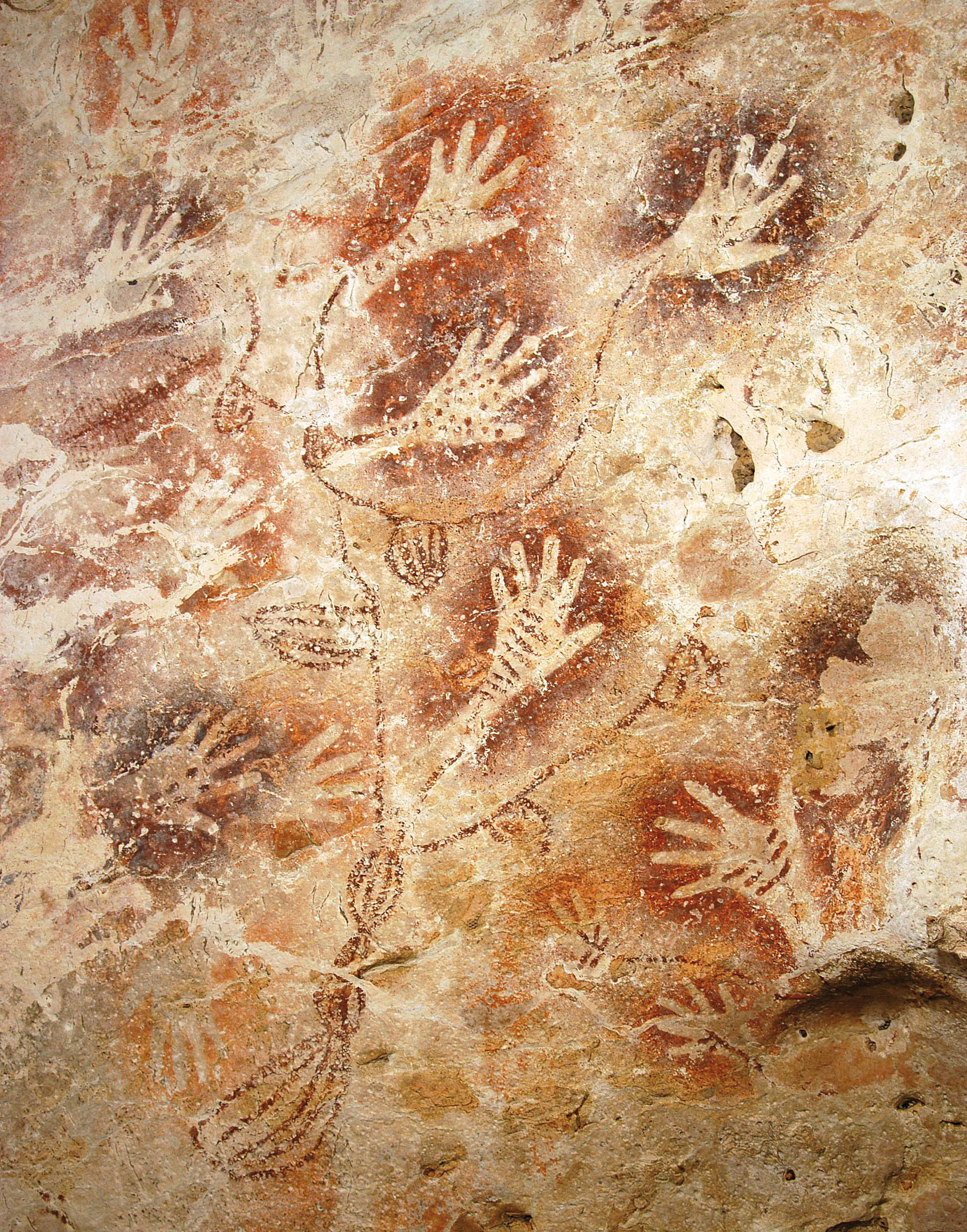 Luc-Henri Fage, 1999, issue from my book "Borneo, Memory of the Caves"